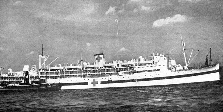 USAHS Charles A. Stafford (U.S. Army Hospital Ship) Halftone reproduction of a photograph taken circa 1944-1946, while the ship was in service as a U.S. Army Hospital Ship. Prior to conversion to a hospital ship (which involved replacement of her original two smokestacks with a single unit) she had been the Army Transport Siboney. In 1918-1919 this ship served as USS Siboney (ID # 2999). Copied from the book "Troopships of World War II", by Roland W. Charles. U.S. Naval Historical Center Photograph.